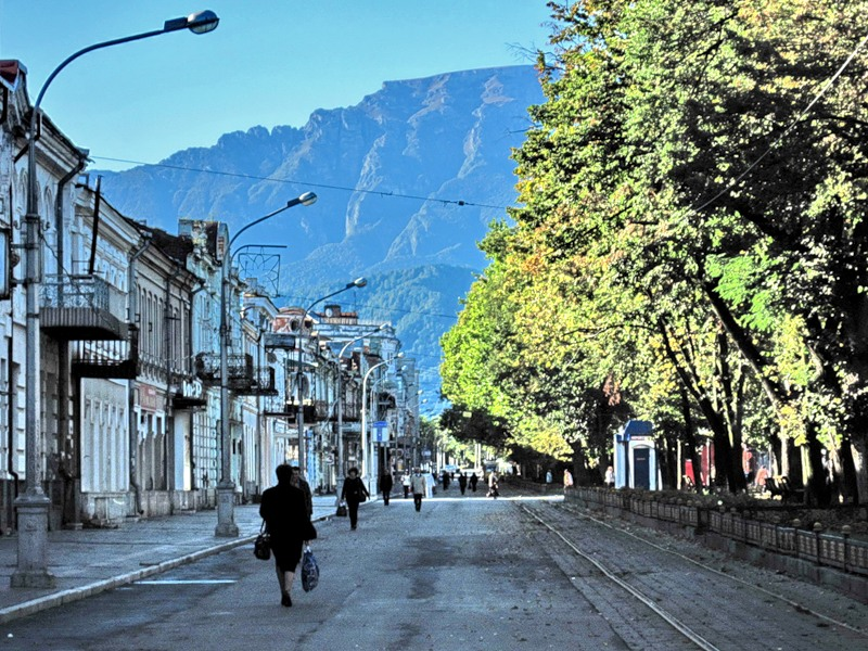 View along Peace Avenue (Mira Prospekt) in Vladikavkaz.